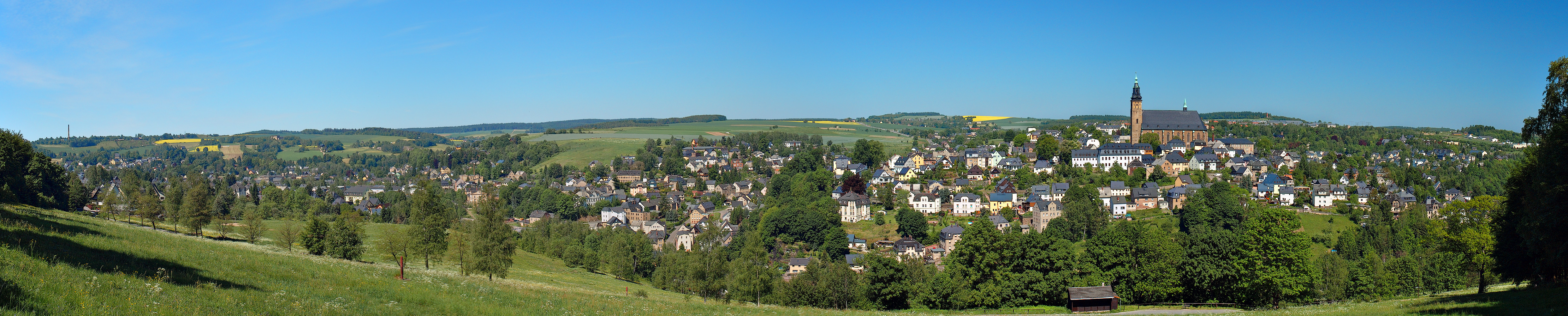 This image shows Schneeberg (Saxony, Germany) from south-east as a panorama photo. It has been stitched together using four single images.